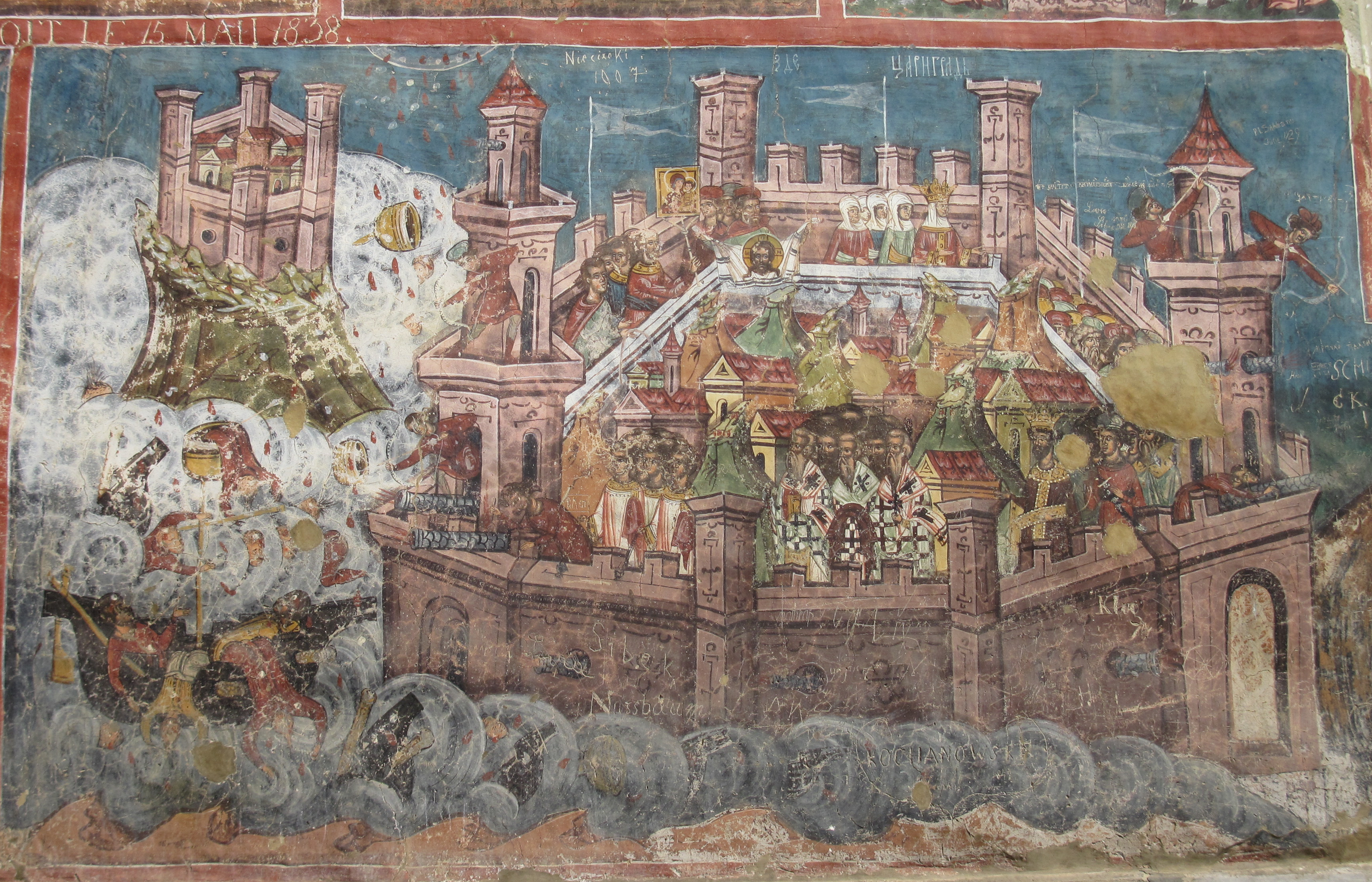 The Siege of Constantinople (626) by the Avars on a mural at the Moldoviţa Monastery, Romania. The siege depicted in actual fact is the en"Fall of Constantinople to the Ottomans in 1453, as illustrated by the presence of artillery and the dress of the besieging forces. The church is one of the Painted churches of northern Moldavia listed in UNESCO's list of World Heritage sites.